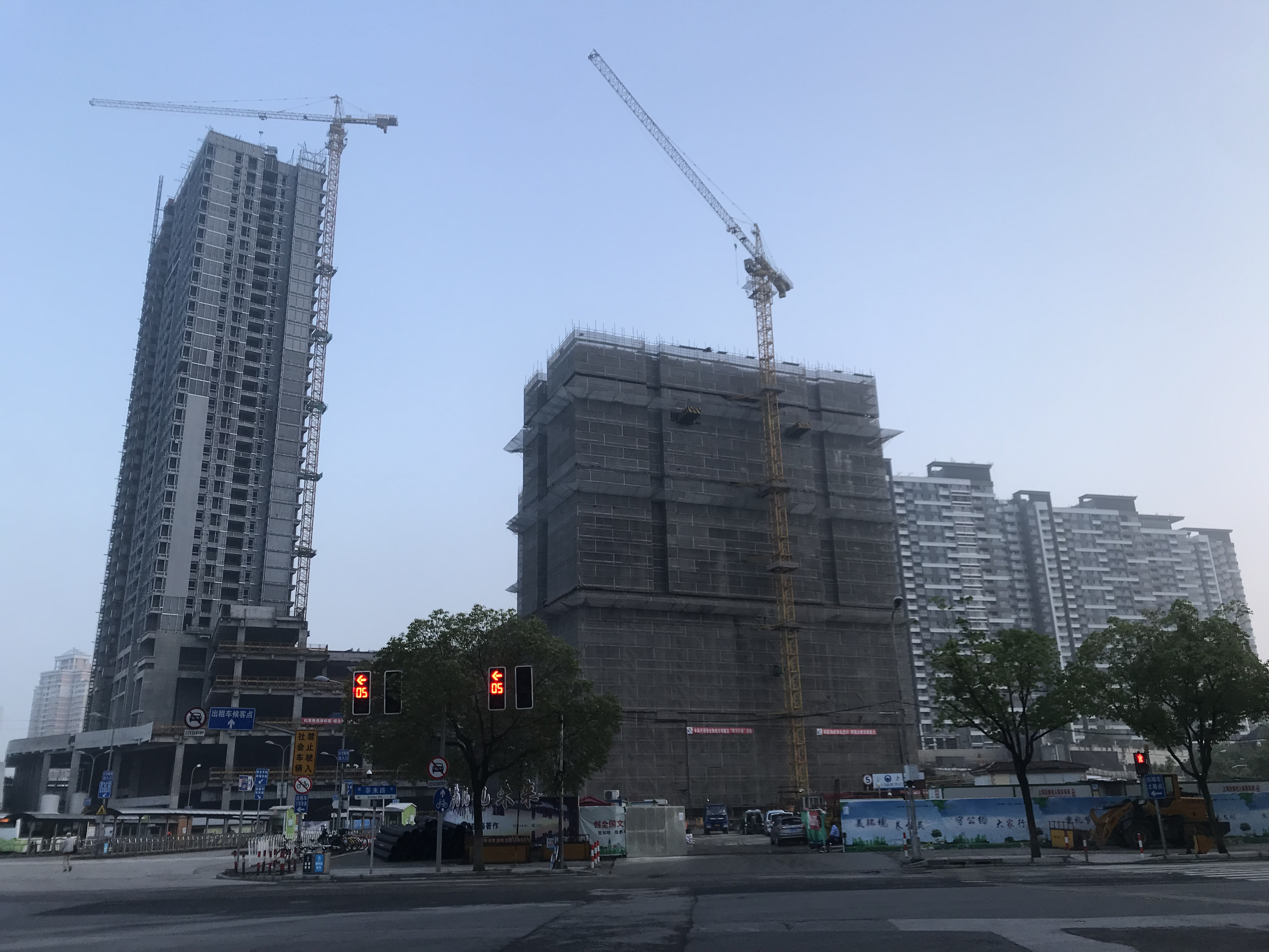 201907 TODTOWN under Construction